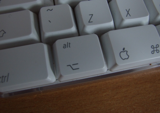 The alt (option) key on an Apple wireless keyboard.